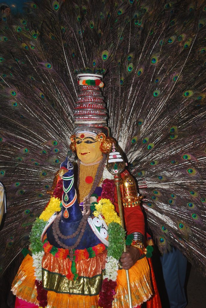 Mayilattam, a kind of folk dance found in Tamilnadu and Kerala